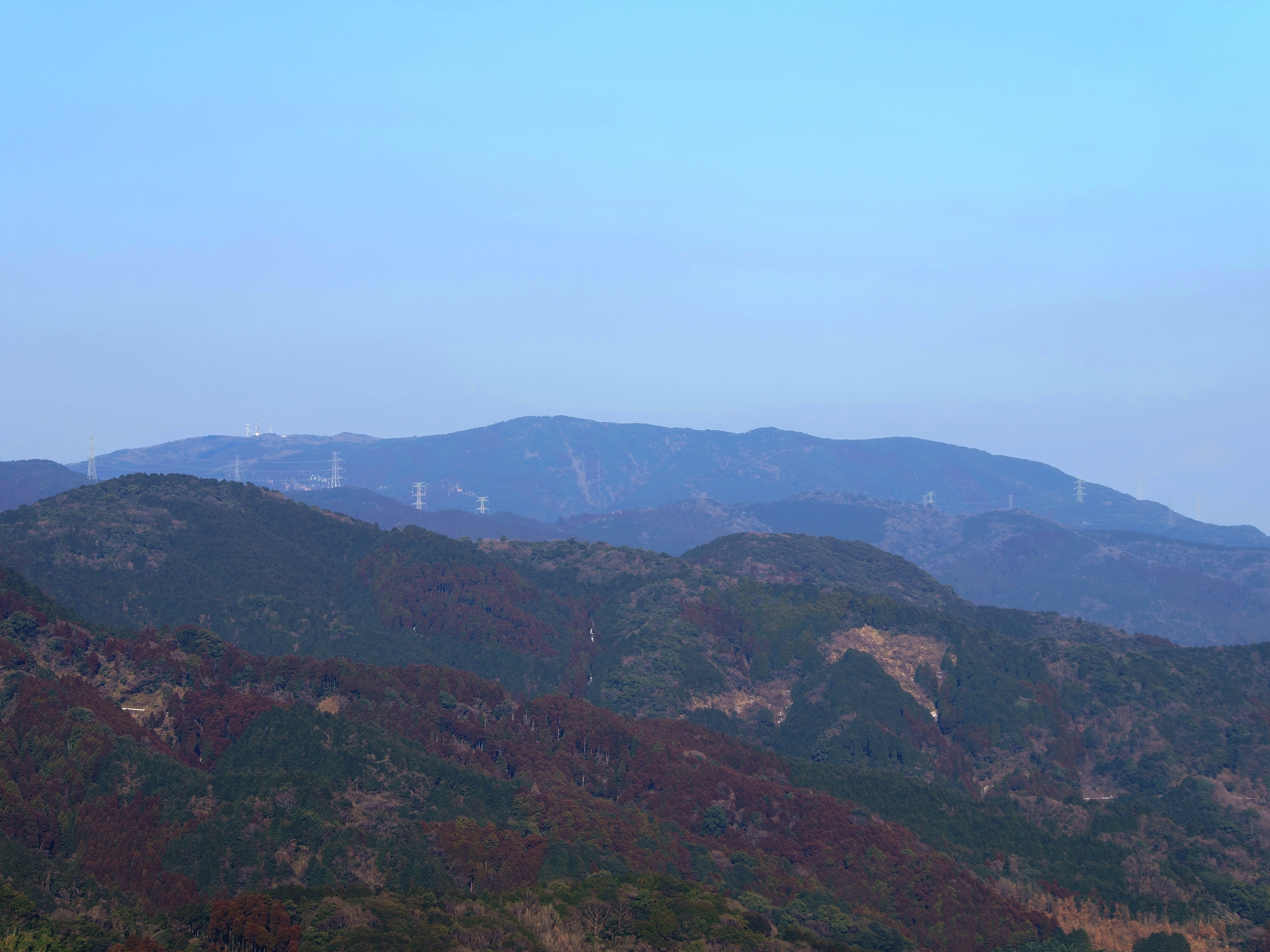 Mount Kusenbu, from the peak of Mount Kawarake.